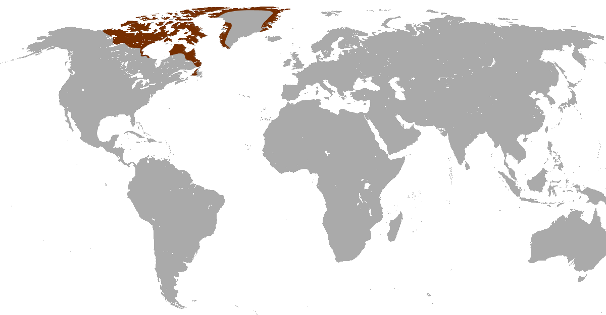 Arctic Hare (Lepus arcticus) range